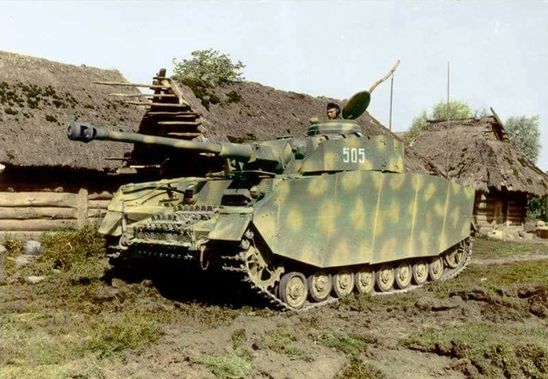 This is a retouched picture, which means that it has been digitally altered from its original version. Modifications: recolored by User:Ruffneck88. == Recolored Version of this image. Russland, Panzer IV Photographer SchönemannArchive description Description provided by the archive when the original description is incomplete or wrong. You can help by reporting errors and typos at Commons:Bundesarchiv/Error reports. Rußland.- Panzer IV der 12. P. D./ Pz. Rgt 29 (Turmnummer 505) mit Turm- und Seitenschürzen und Tarnanstrich; PK 670Title Russland, Panzer IV Depicted place RussiaDate July 1944date QS:P571,+1944-07-00T00:00:00Z/10Collection German Federal Archives Native nameDas BundesarchivLocationKoblenz (headquarters)Coordinates50° 20′ 32.71″ N, 7° 34′ 21.22″ E Established1946Web page control : Q685753 VIAF: 137346469 ISNI: 0000 0004 0555 2728 LCCN: n92025526 NLA: 36455393 Open Library: OL55798A WorldCat institution QS:P195,Q685753Current location Propagandakompanien der Wehrmacht - Heer und Luftwaffe (Bild 101 I)Accession number Bild 101I-088-3734A-19A Source This image was provided to Wikimedia Commons by the German Federal Archive (Deutsches Bundesarchiv) as part of a cooperation project. The German Federal Archive guarantees an authentic representation only using the originals (negative and/or positive), resp. the digitalization of the originals as provided by the Digital Image Archive.